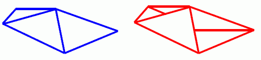 A conformal triangulation (blue) and a non-conformal one (red)